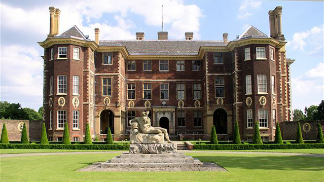 Ham House, with Coade stone sculpture of Father Thames, by John Bacon the Younger, in the foreground. Taken by John Thaxter. Uploaded on Thaxter's behalf by Angmering.